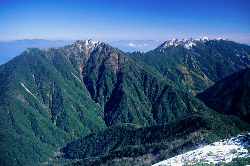 Mount Kurisawa, Mount Asayo (Asayomine) and Mount Hōō seen from Mount Senjō